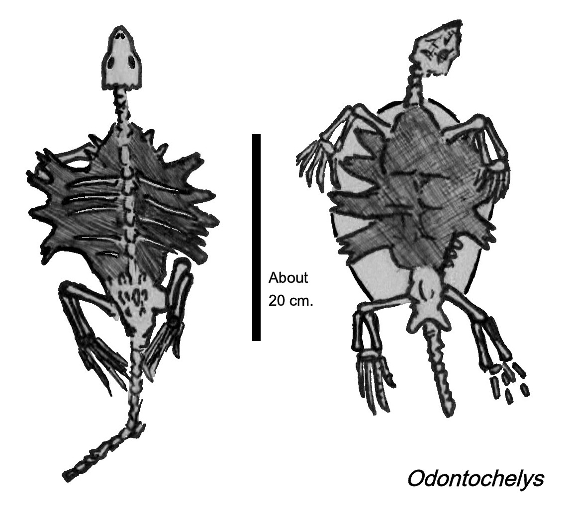 Sketches depicting 2 fossil specimens of Odontochelys, a basal turtle from the late Triassic period, China.